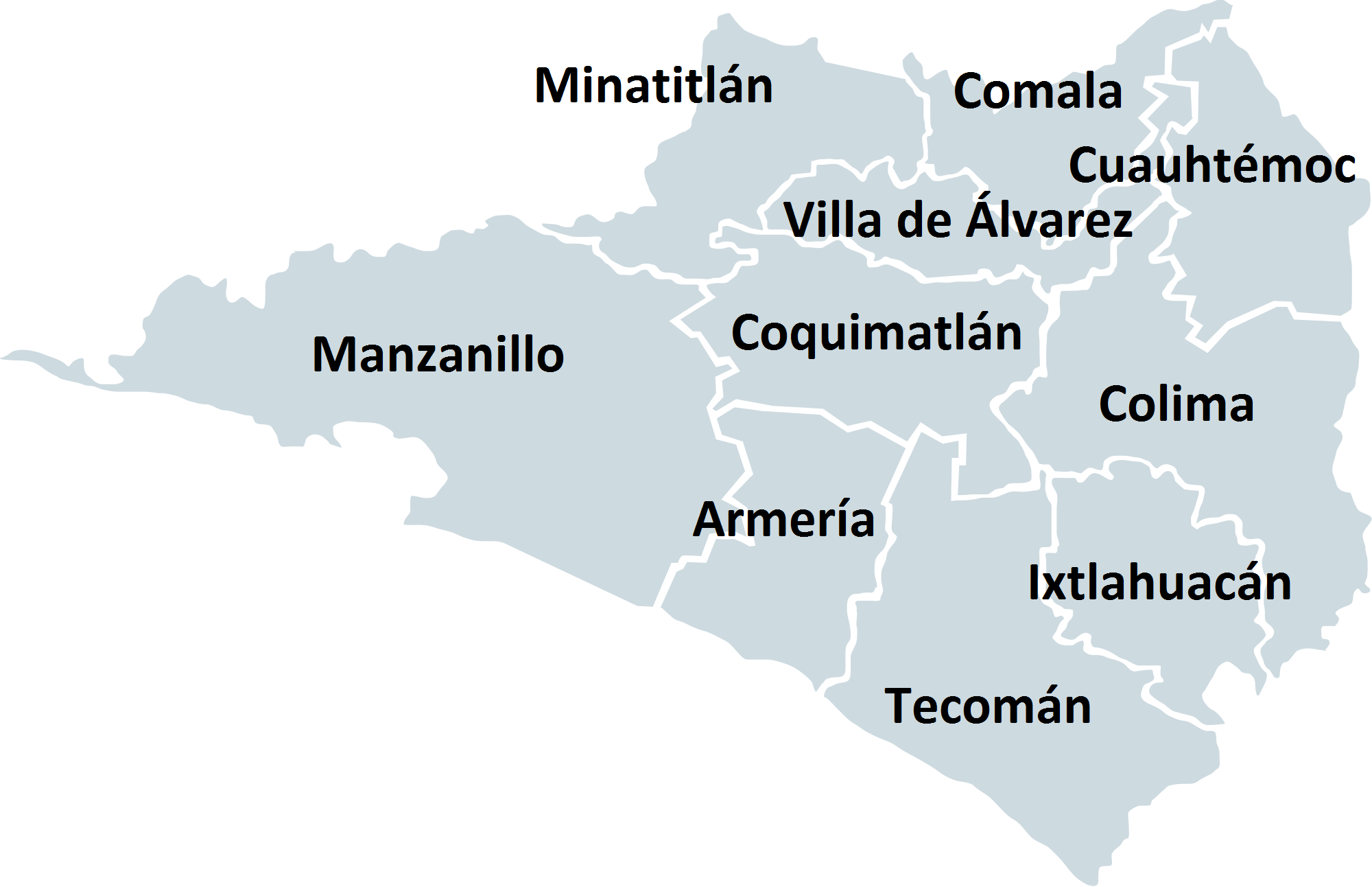 Colima Municipalities Map Labeled